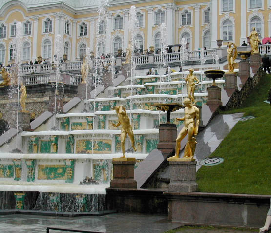 Staircase fountain (the Grand Cascade) at the Peterhof (Peter the Great's Summer Palace). Image by Mike Martin, uploaded by User:Leonard G.